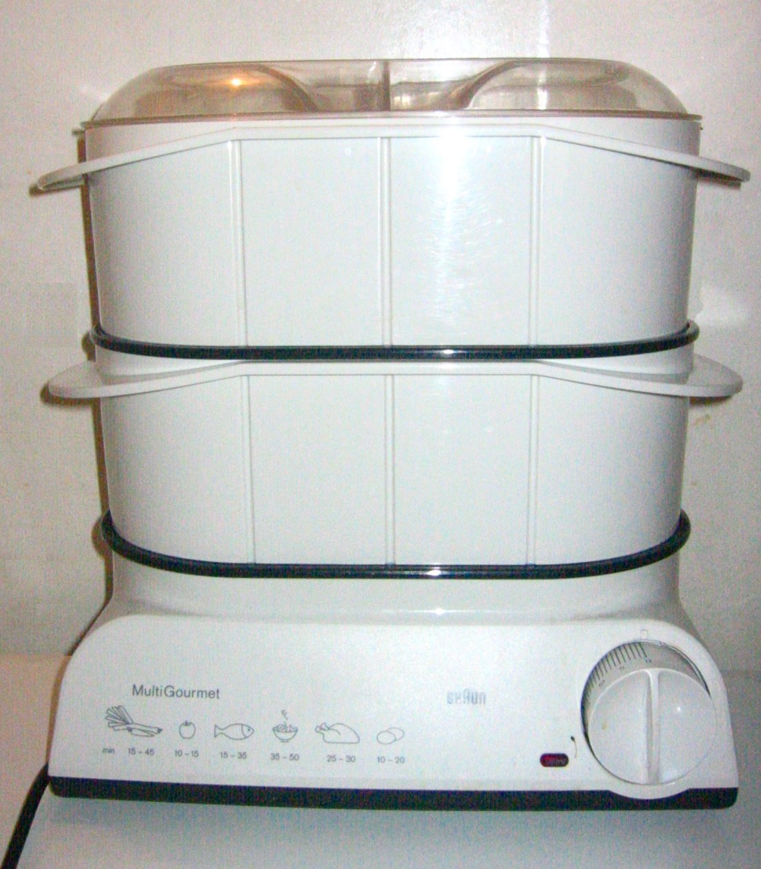 Braun "Multi-Gourmet" steam cooker.